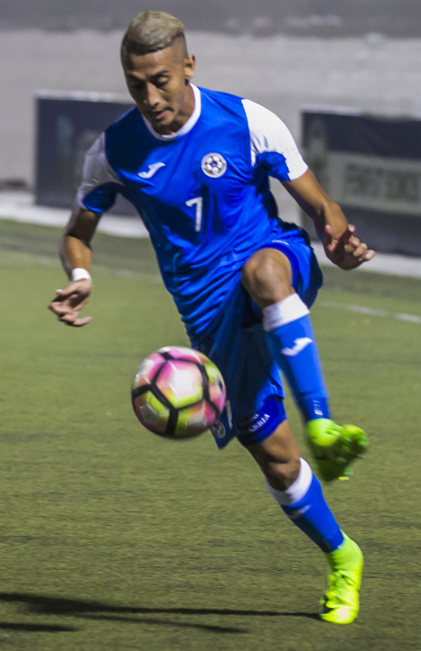 NICARAGUA VS. HAITI 3 - 0